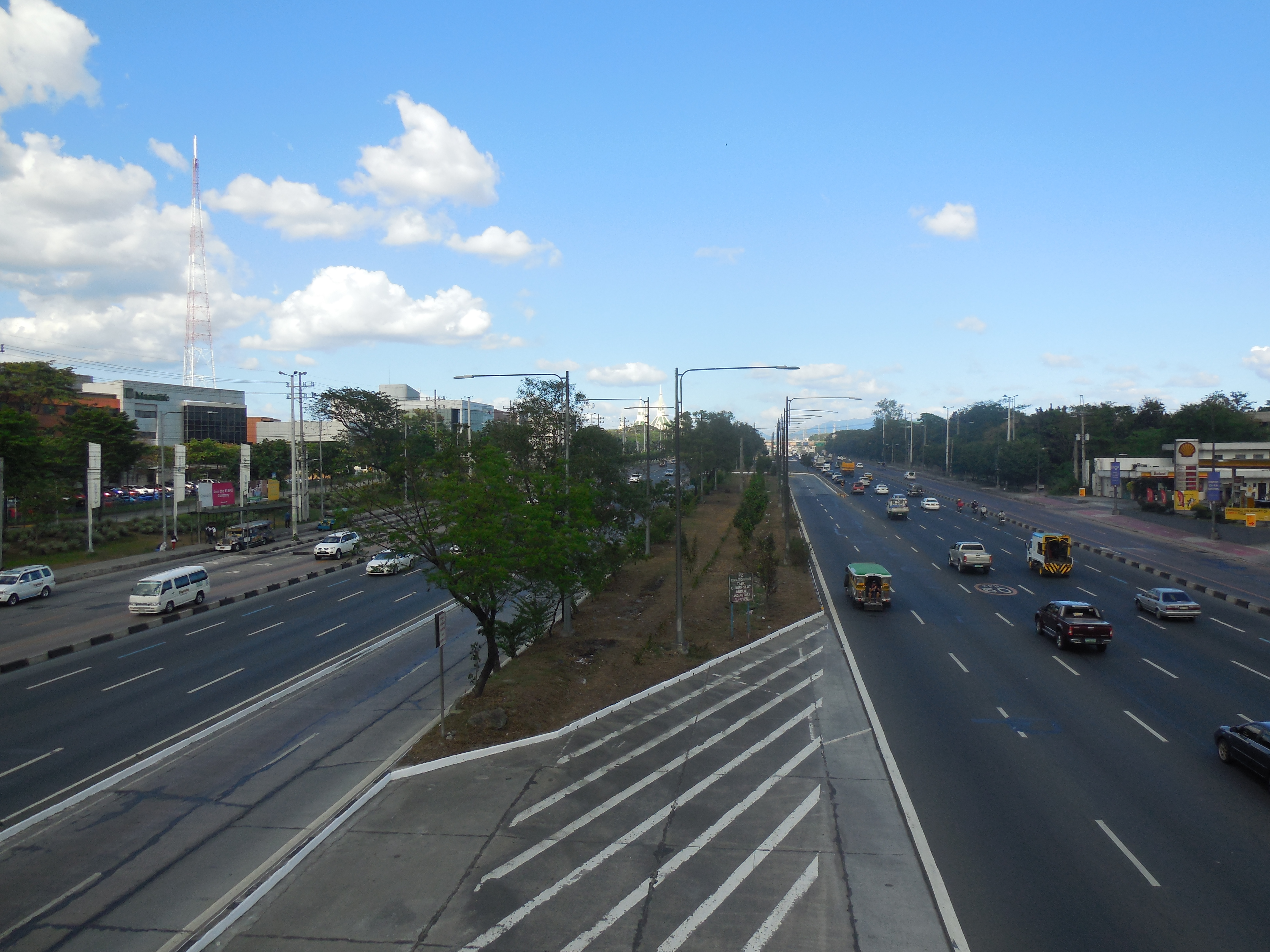 Commonwealth Avenue on its section in front of the University of the Philippines, in Diliman, Quezon City